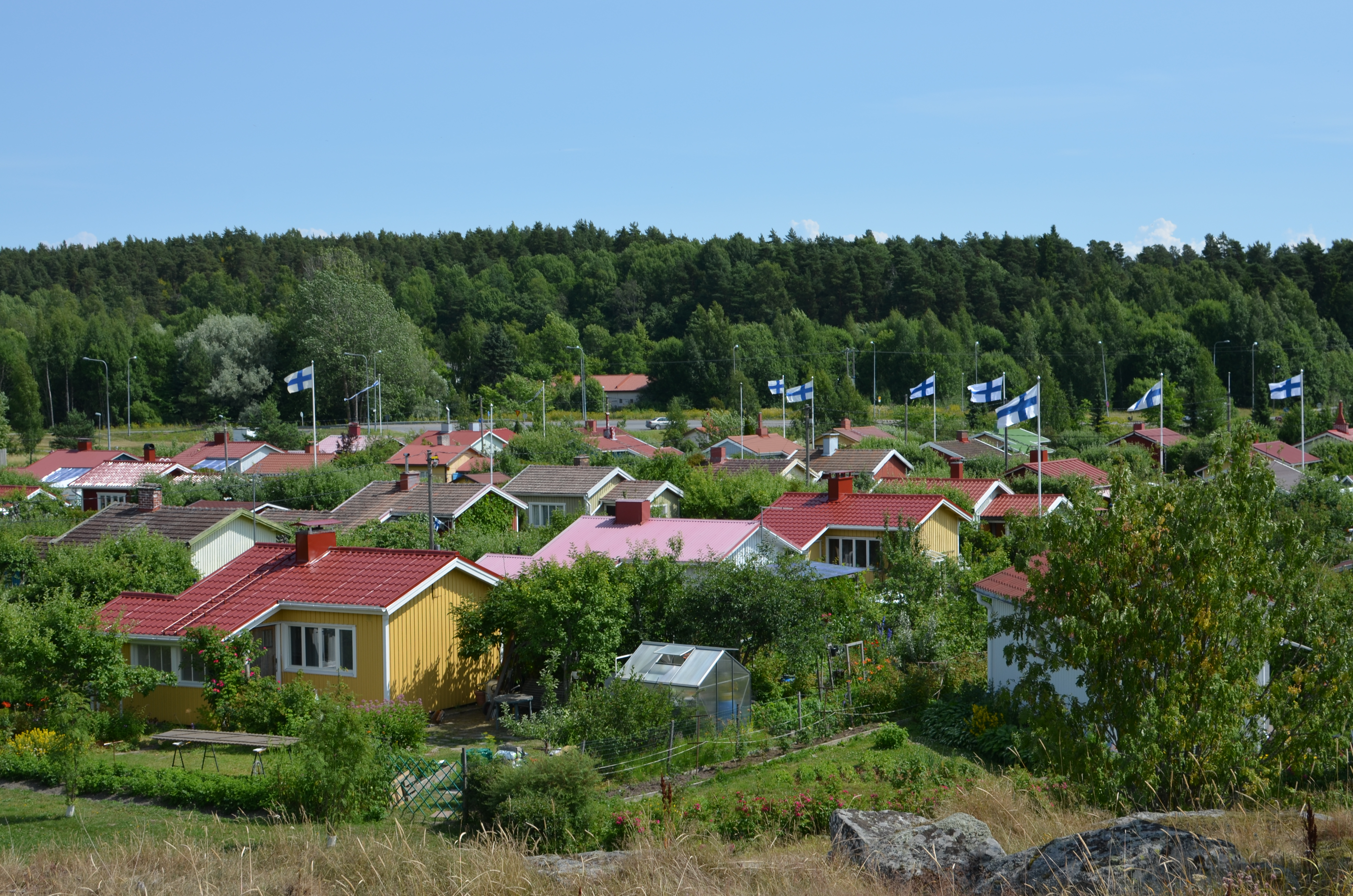 Peltola allotment garden - view is heading to east